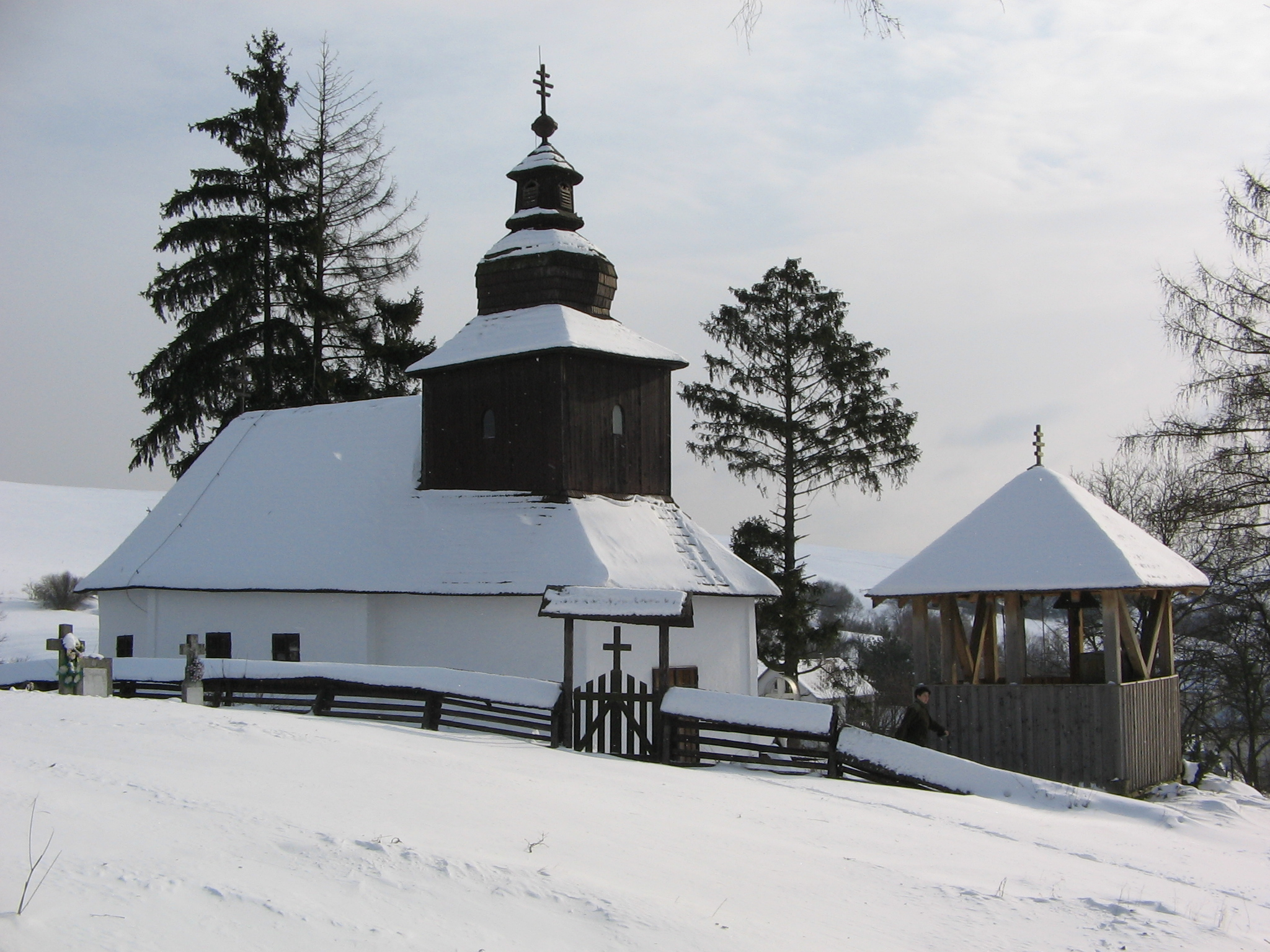 Kalná Roztoka wooden church